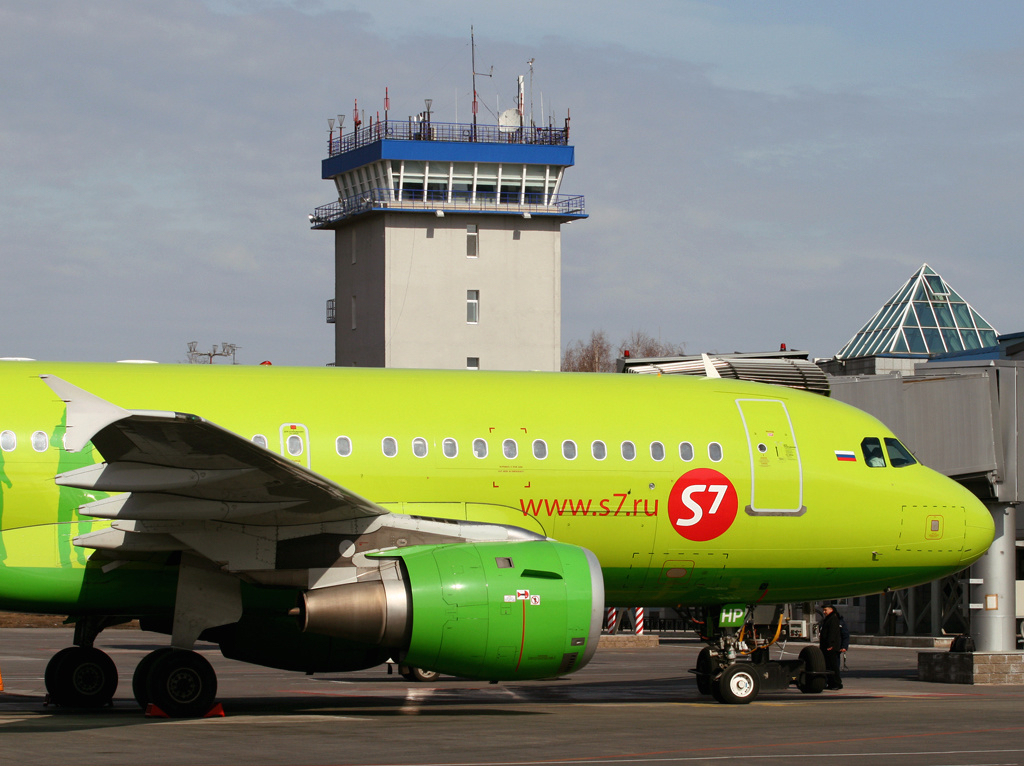 S7 Airbus A319 at Ufa International Airport